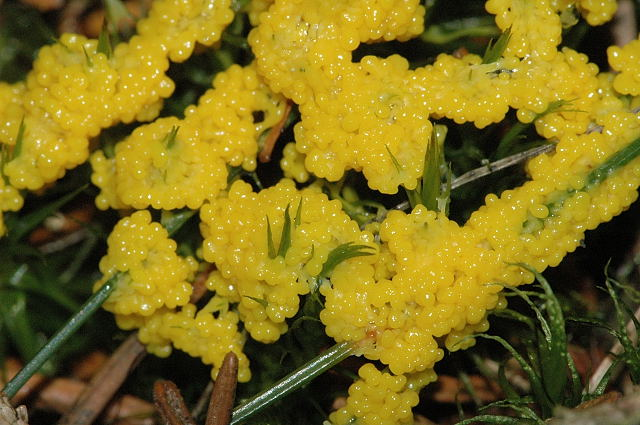 Unidentified plasmodium of a slime mold (myxomycete) from Commanster, Belgian High Ardennes. The determination of the species shown in this picture has been verified.